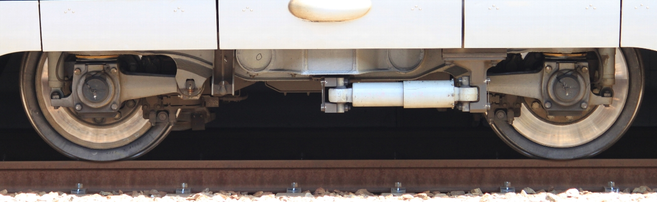 Type WDT205 bogie truck of JRW Shinkansen series 500 (522-7003 / Nishi-Akashi Station)